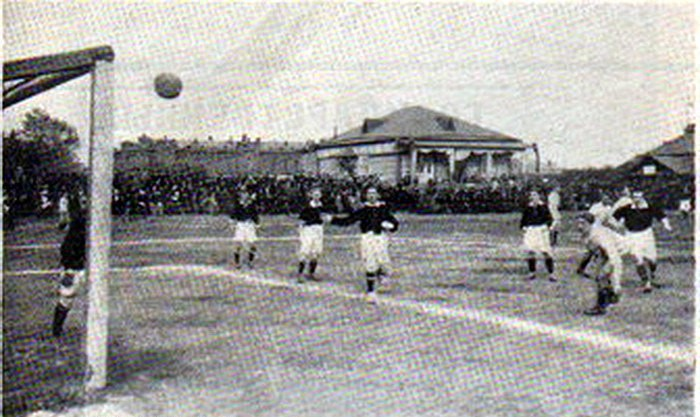 Sokolnichesky sport club stadium, 1913